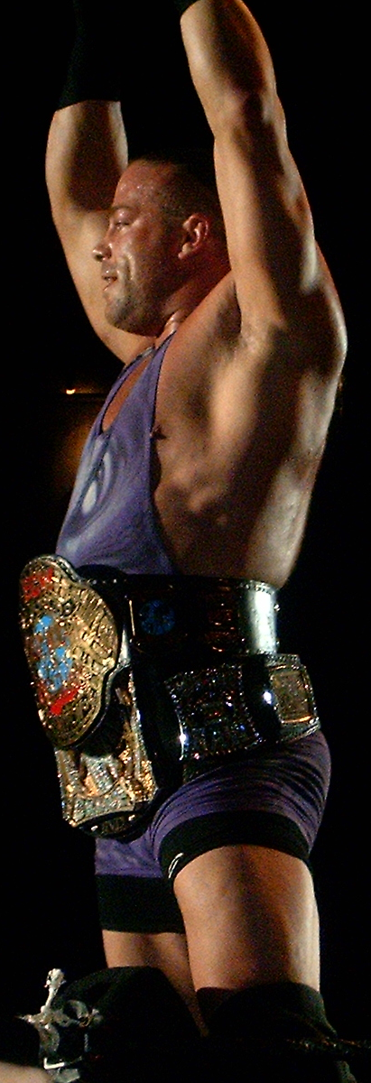 Rob Van Dam, during his tenure as both WWE Champion and ECW World Champion, poses on the ropes before a title defense against The Big Show. Photo taken by me at the July 2 en:2006 ECW house show in Huntington, West Virginia.